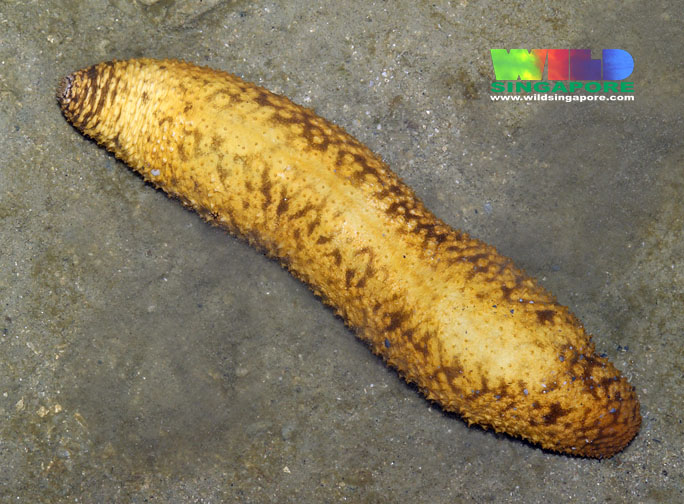 Remarkable sea cucumber (Holothuria notabilis). More about this sea cucumber on the wildfacts sheets on wildsingapore. For a high res version of this photo, please review the details on about using my photos. When making the request, please include this reference: 070505kusg9028